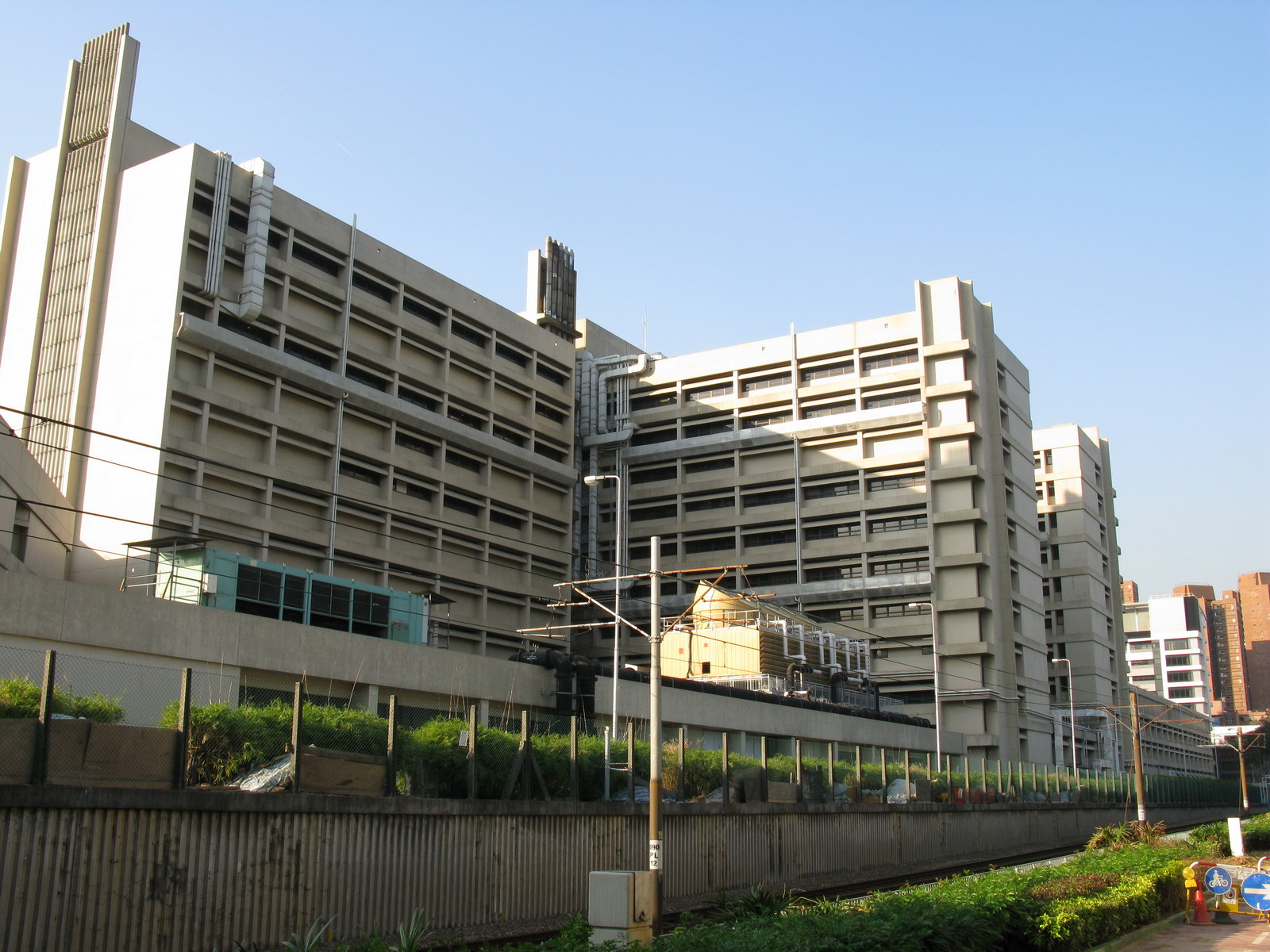 屯門醫院主座 Tuen Mun Hospital Main Block